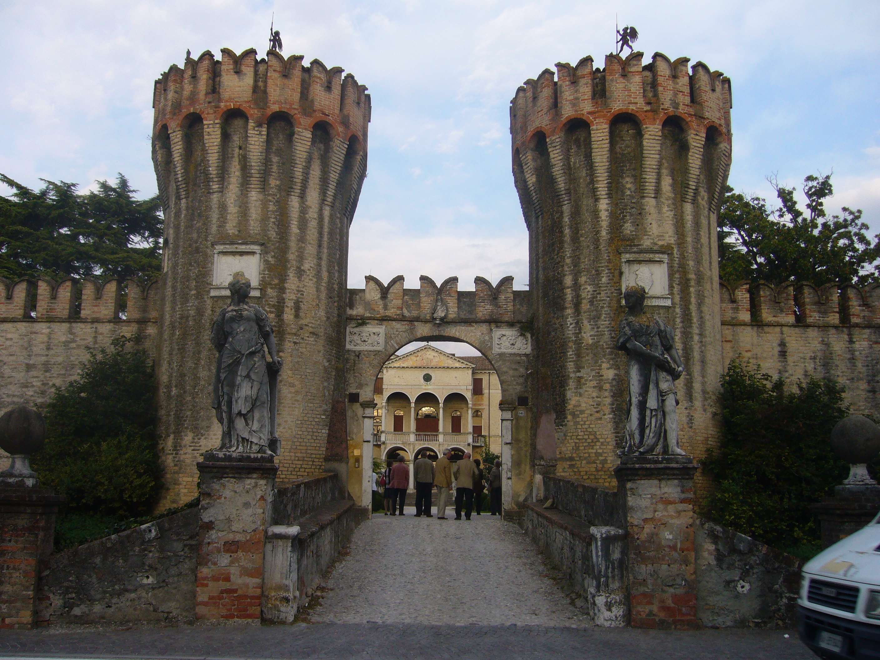 Castello di Roncade outside Treviso, Italy, main entrance